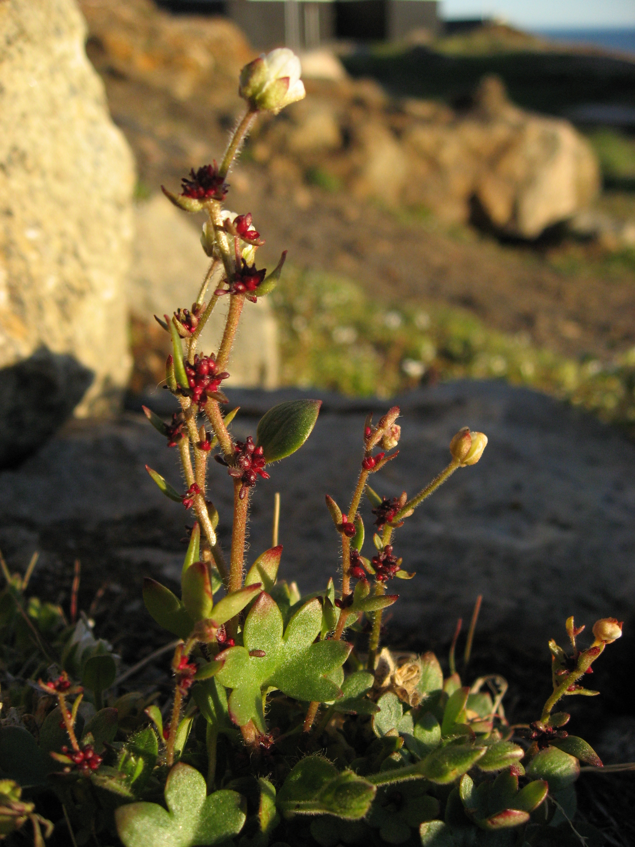 Saxifraga cernua plant photographed in midnight sun next to a house in Upernavik, Greenland.